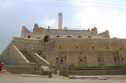 One of the Landmark in kurnool